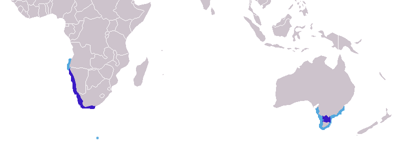 Distribution of Arctocephalus pusillus, the South African and Australian Fur Seal (dark blue: breeding colonies; light blue: non-breeding individuals)